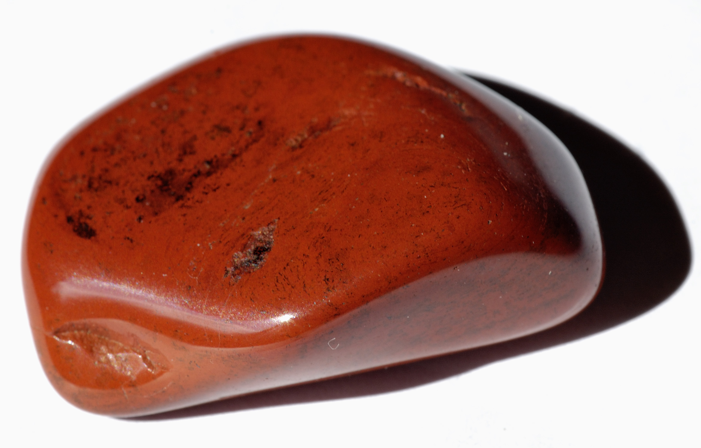 Red Jasper